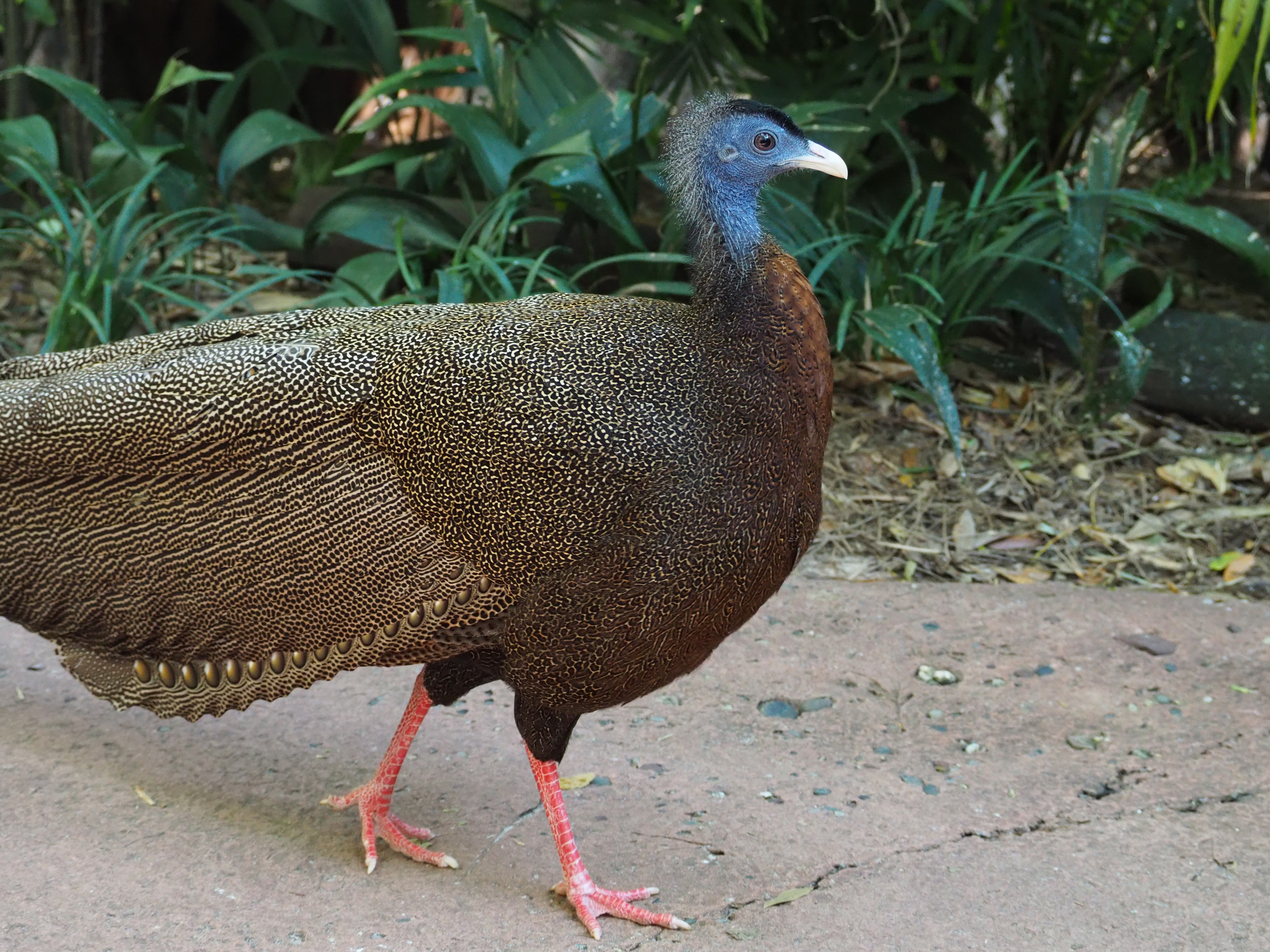 Male great argus (Argusianus argus) at Disney's Animal Kingdom